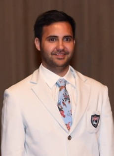 Seeing-off ceremony for Azerbaijani sportsmen to represent the country at the Rio 2016 Summer Olympic Games